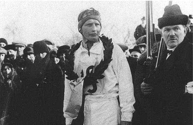 Per-Erik "Särna" Hedlund won Sweden's first Olympic gold medal in cross-country skiing. He won the Vasaloppet ski race the same year together with Sven Utterström.